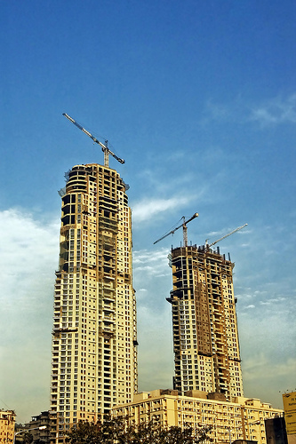 Imperial Towers (Mumbai) under construction